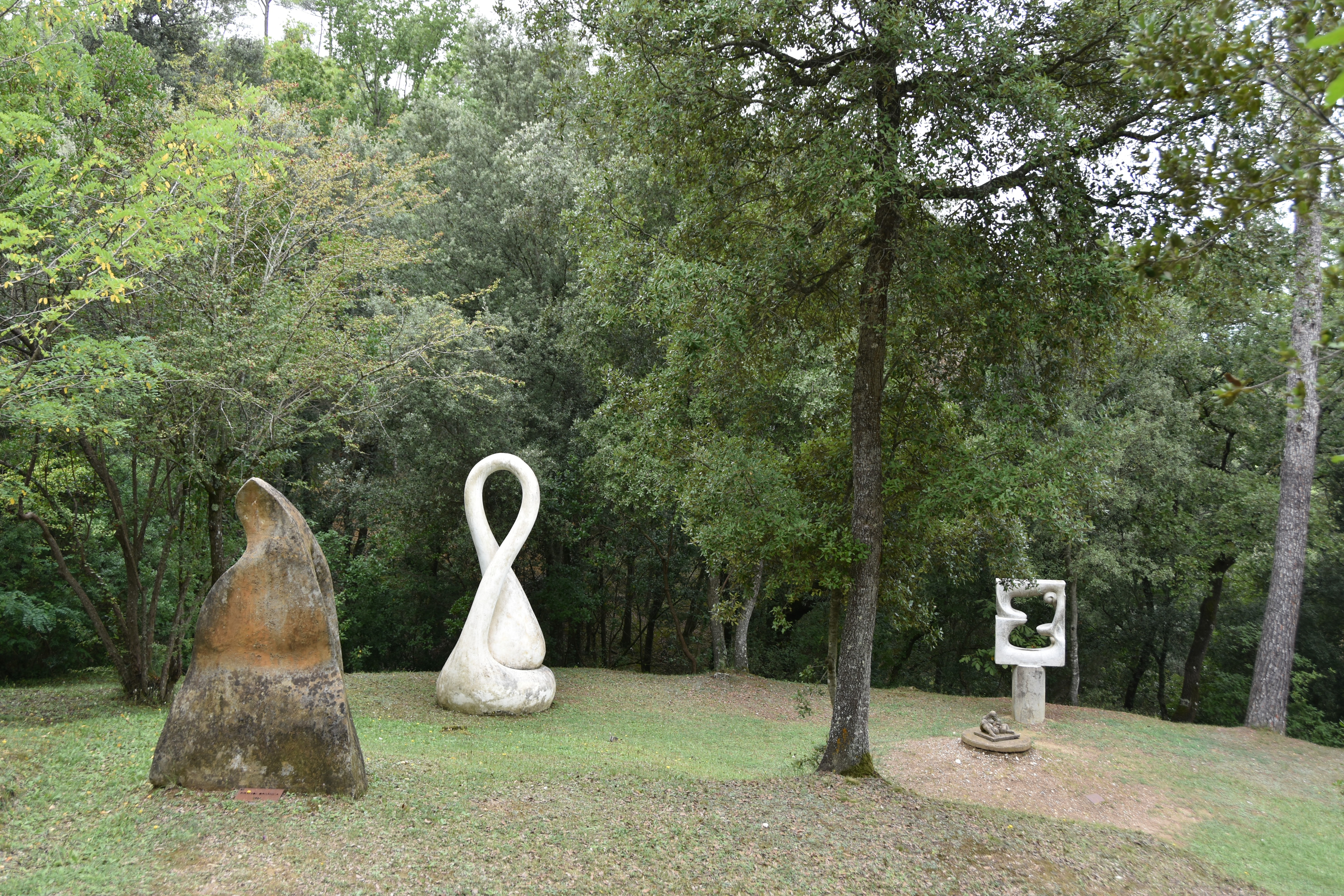 Can Ginebreda Forest (Bosc de Can Ginebreda). Sculpture park created by Xicu Cabanyes in Porqueres